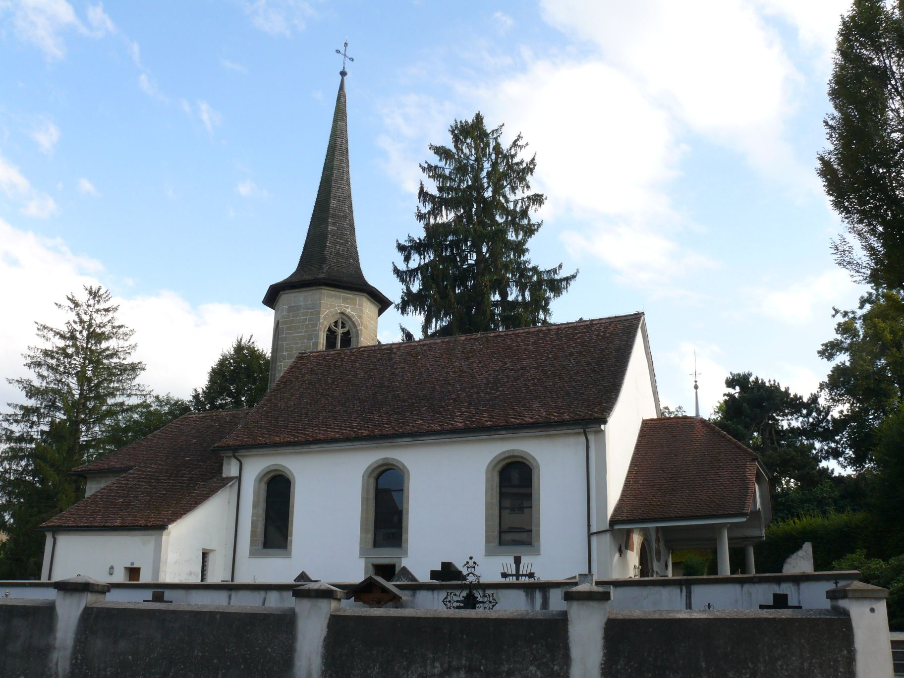 The church of Our-Lady of Bourguillon in Fribourg (Suisse).